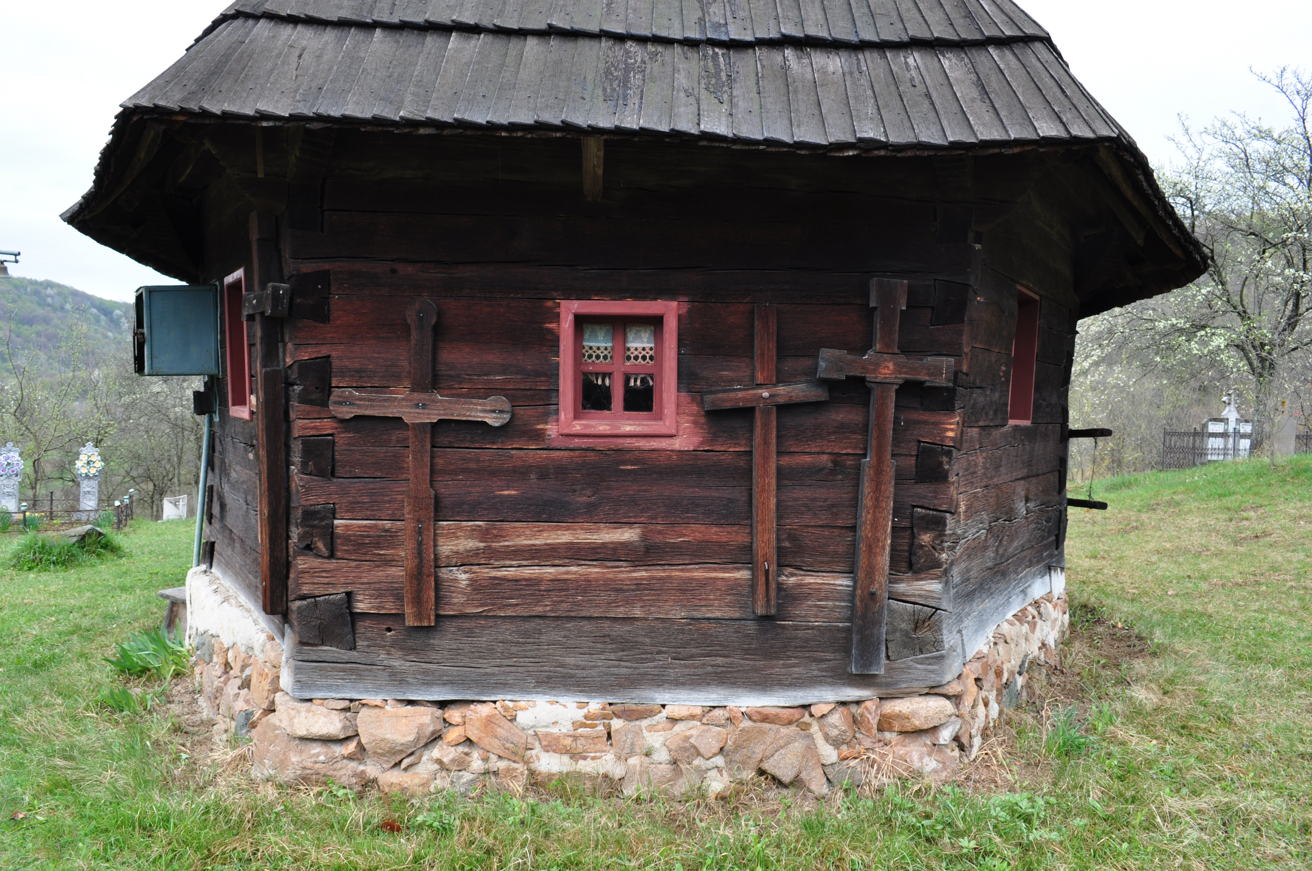 Wooden church in Micănești, Hunedoara county